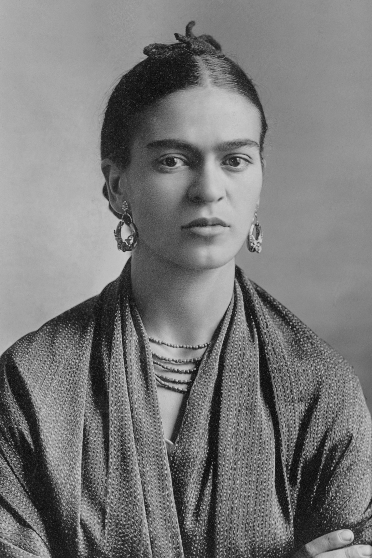 Frida Kahlo (gelatin silver print, 15.2 by 10.8 cm)